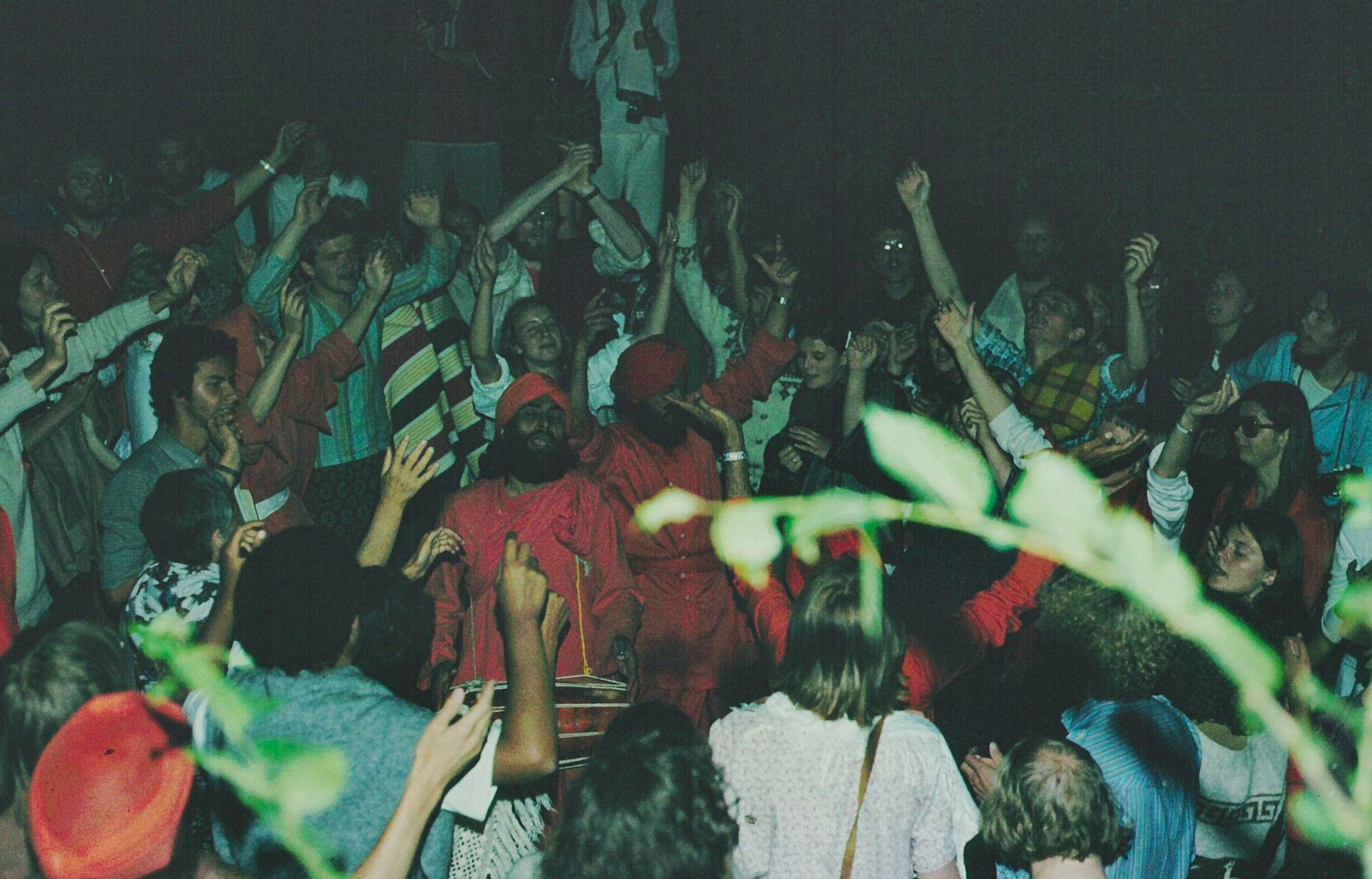 Historical photo representing a group of Ananda Margis singing Kiirtan on 1978 in occasion of Shrii Shrii Anandamurti's liberation.